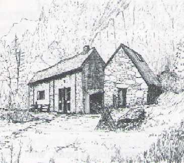 West Bromwich Mountaineering Club Hut is near Snowdon in Wales